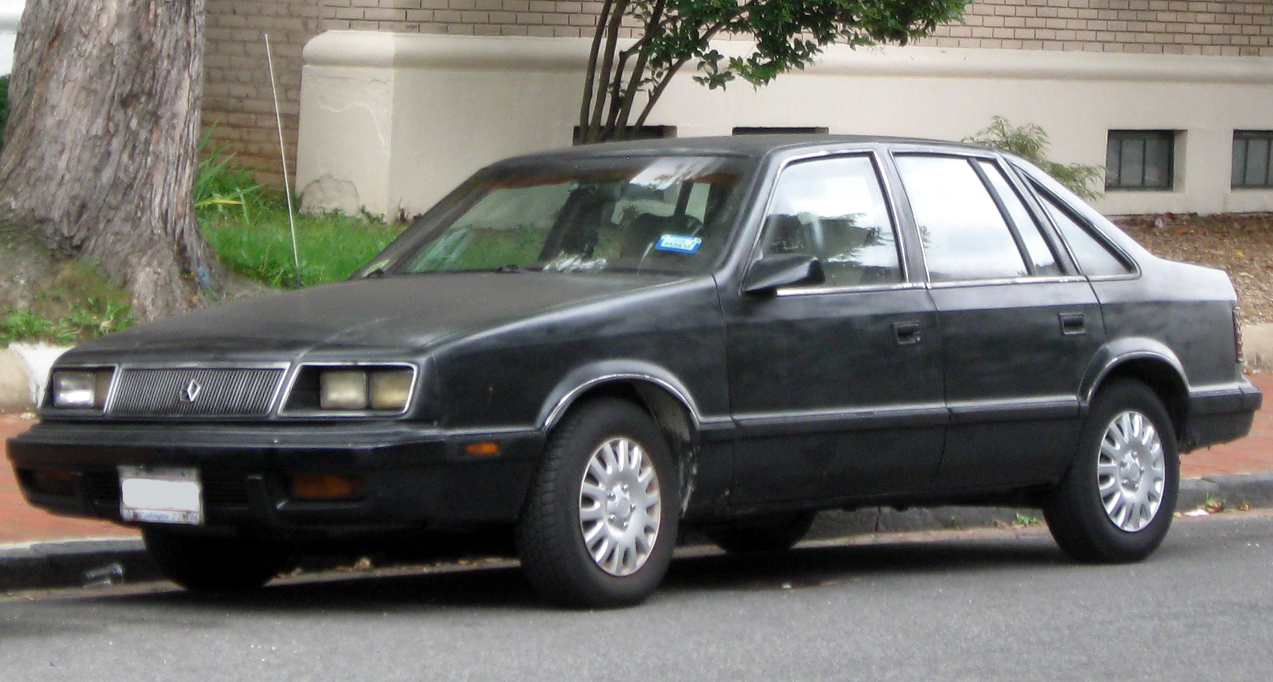 Chrysler LeBaron GTS photographed in Washington, D.C., USA.